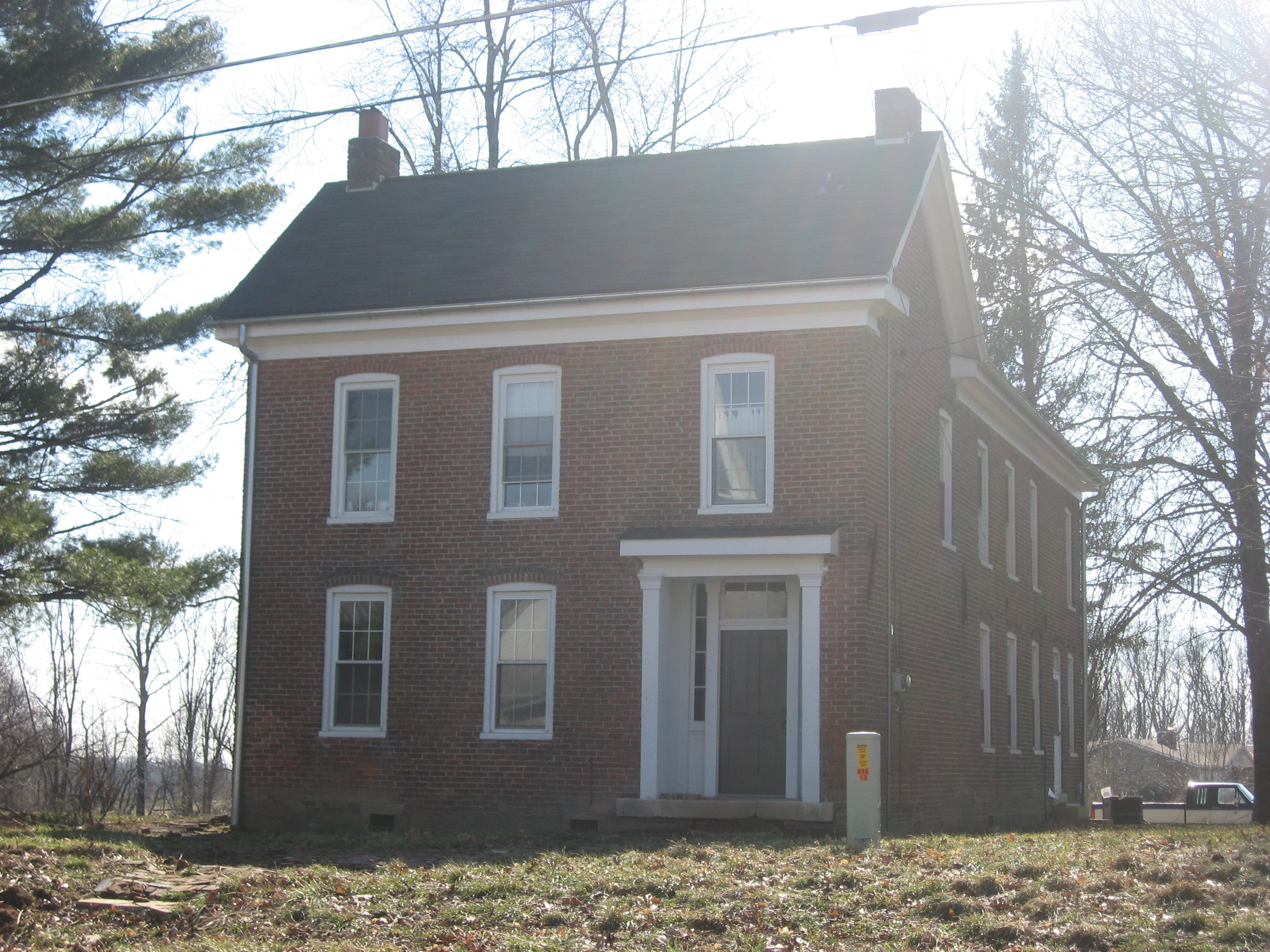 Front and western side of the Koontz House, located at 7401 Mount Zion Road northwest of Kirksville in Indian Creek Township, Monroe County, Indiana, United States. Built in 1865, it is listed on the National Register of Historic Places.